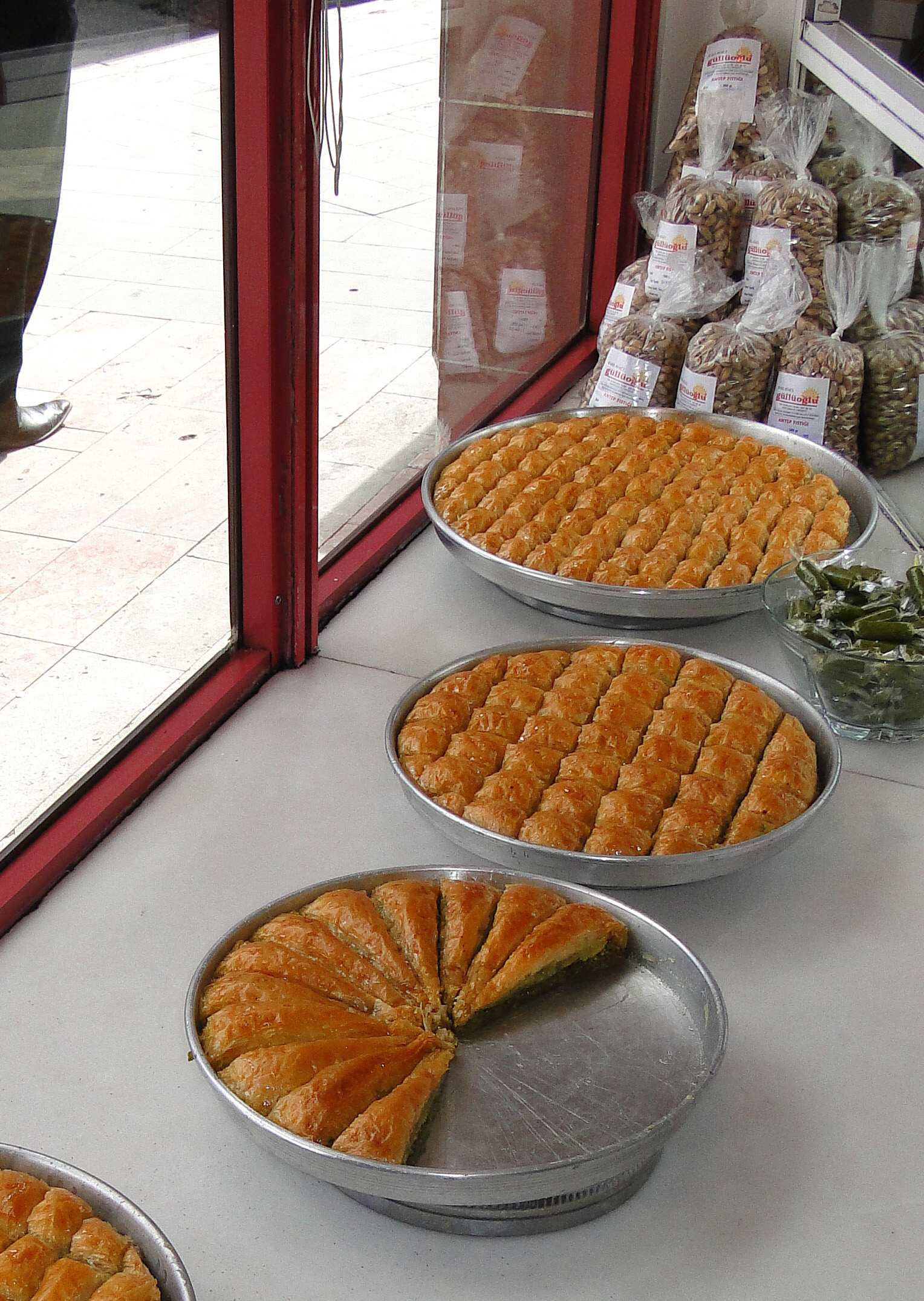 Baklava and pistachios sold in Gaziantep Province – Turkey.